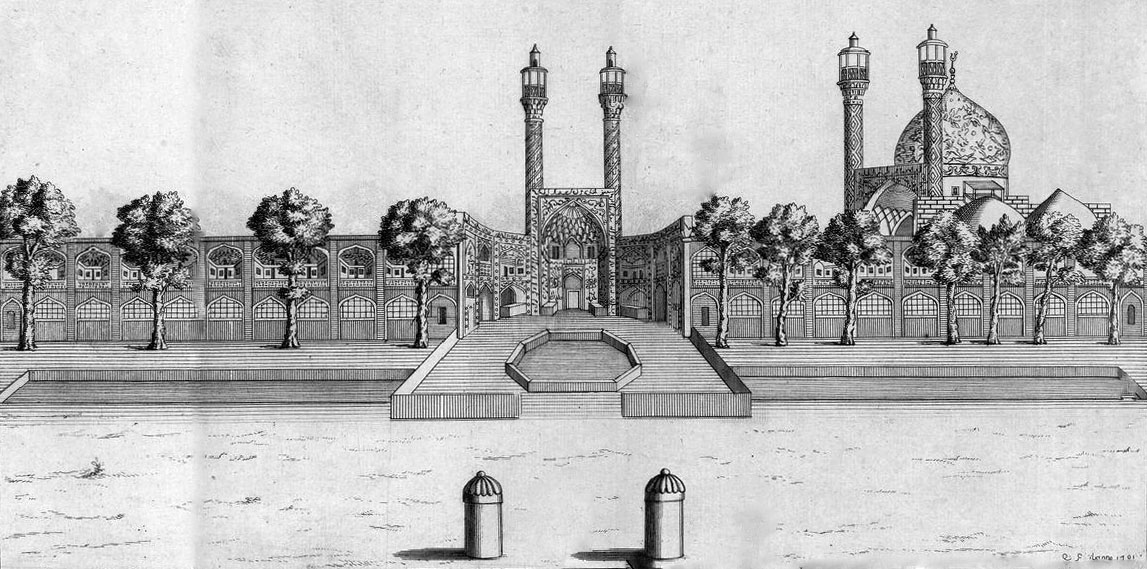 Masjed-e Shah, Esfahan, Persia. Voyages de Mr. Le Chevalier Chardin en Perse et autres lieux de l'Orient]. Tome 8. Pl. dépl. n °2 en reg. p.47 cote : Réserve DS 257 C 47 1723 v1 à 10.